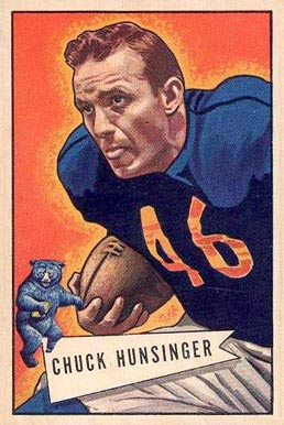 American football player Chuck Hunsinger on a 1952 Bowman Large card.